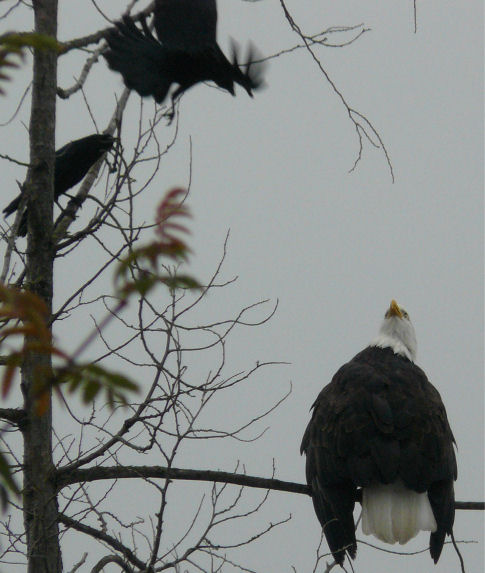 4th of 4: Crows mobbing perched bald eagle. Bremerton, WA, 11/2007. See Image:Crows Mobbing Bald Eagle 01.jpg for description.)